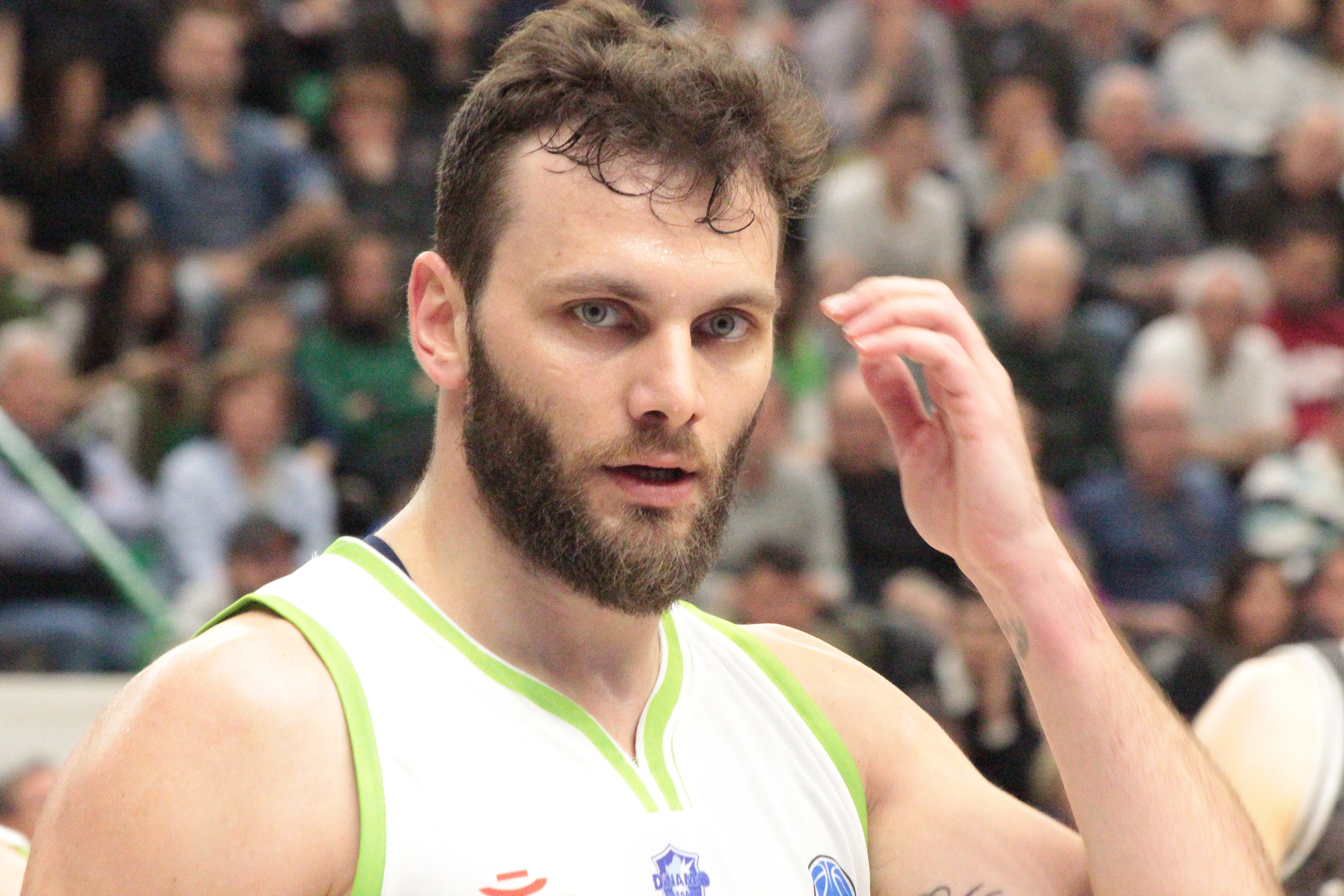 Basketball player Stefano Gentile with Dinamo Basket Sassari uniform